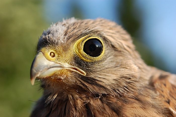 Falco tinnunculus